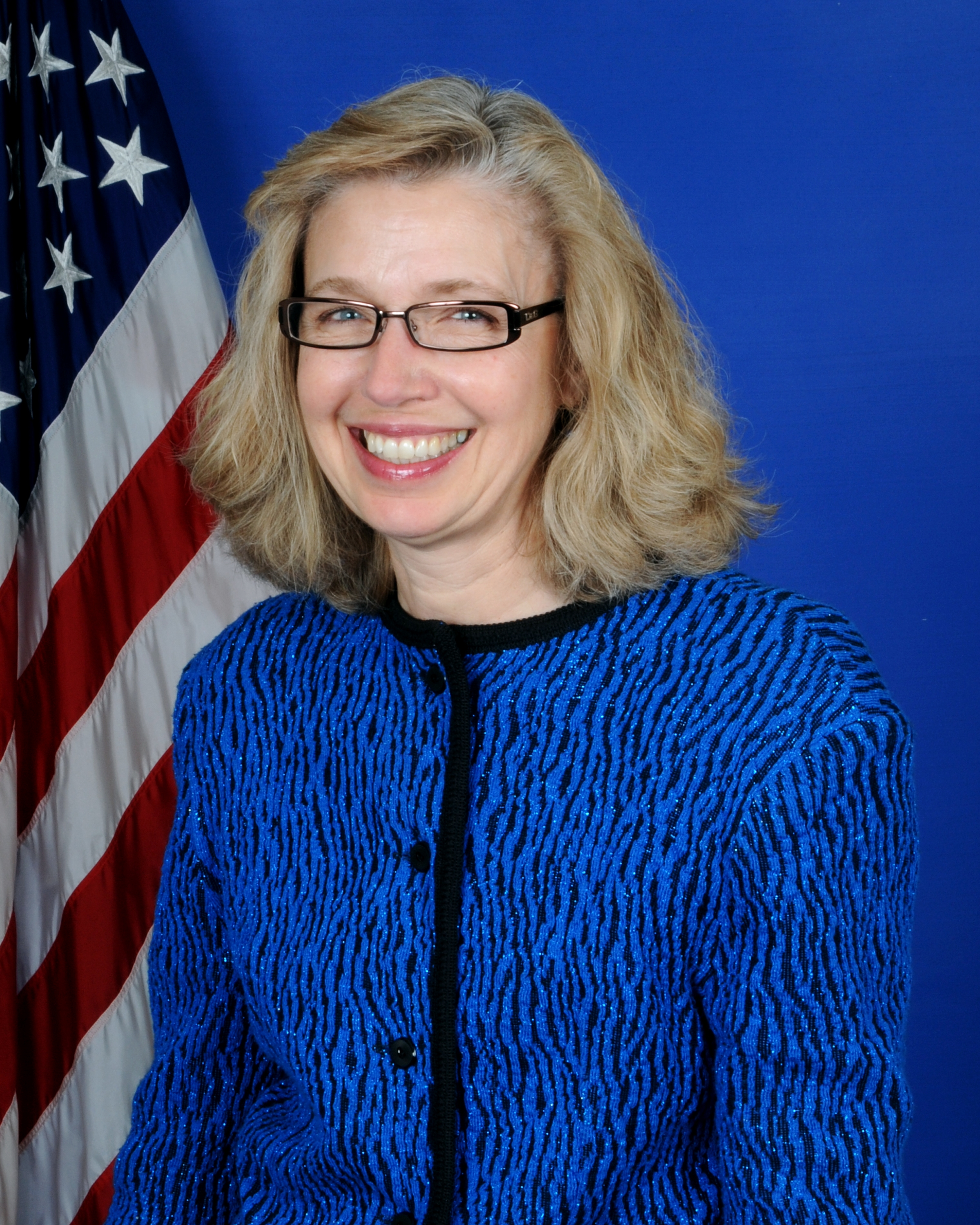 Acting Deputy Secretary of Defense official portrait